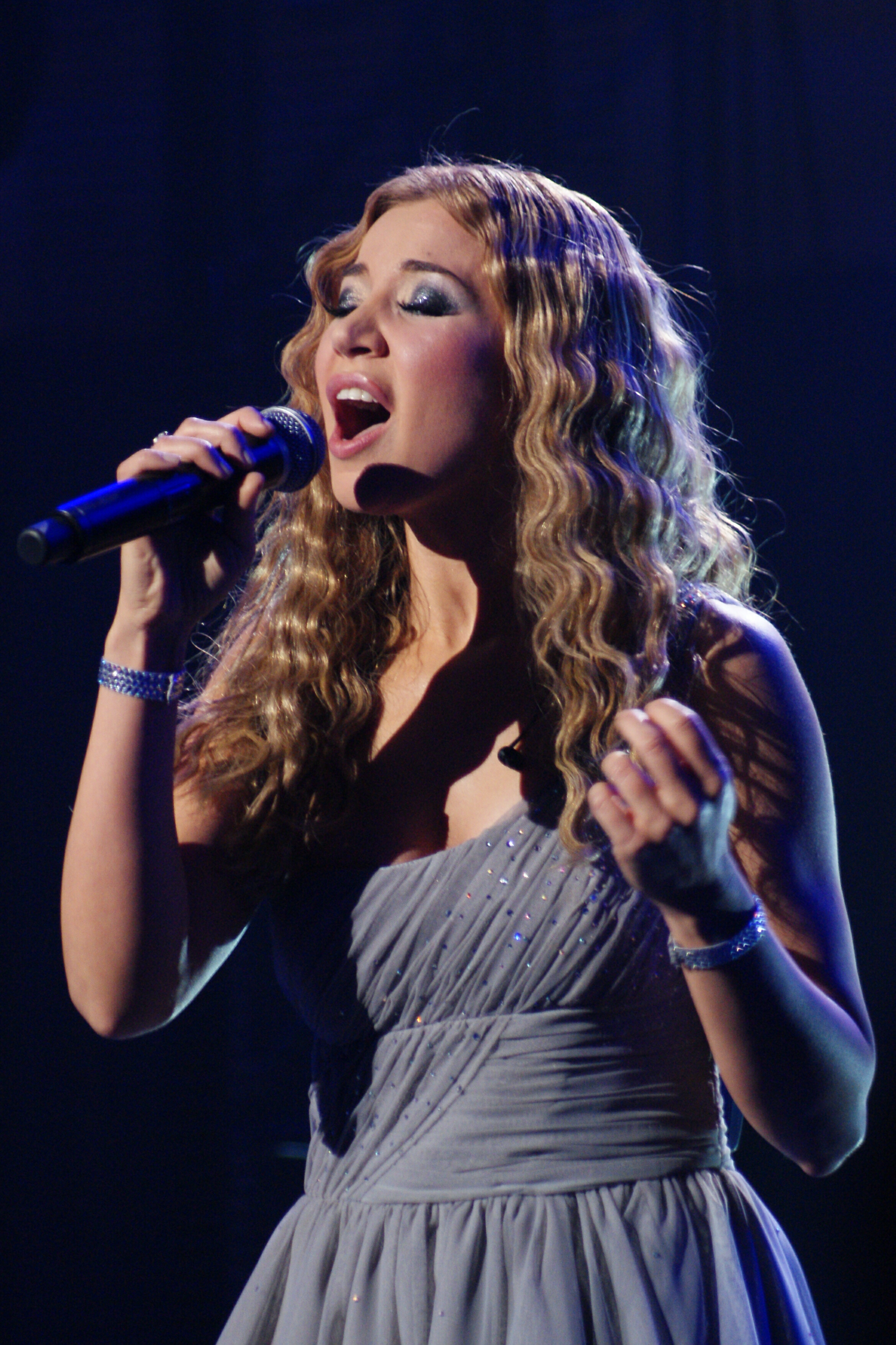 Polish singer Lidia Kopania performing "I Don't Wanna Leave" at the Piosenka dla Europy contest (2009)